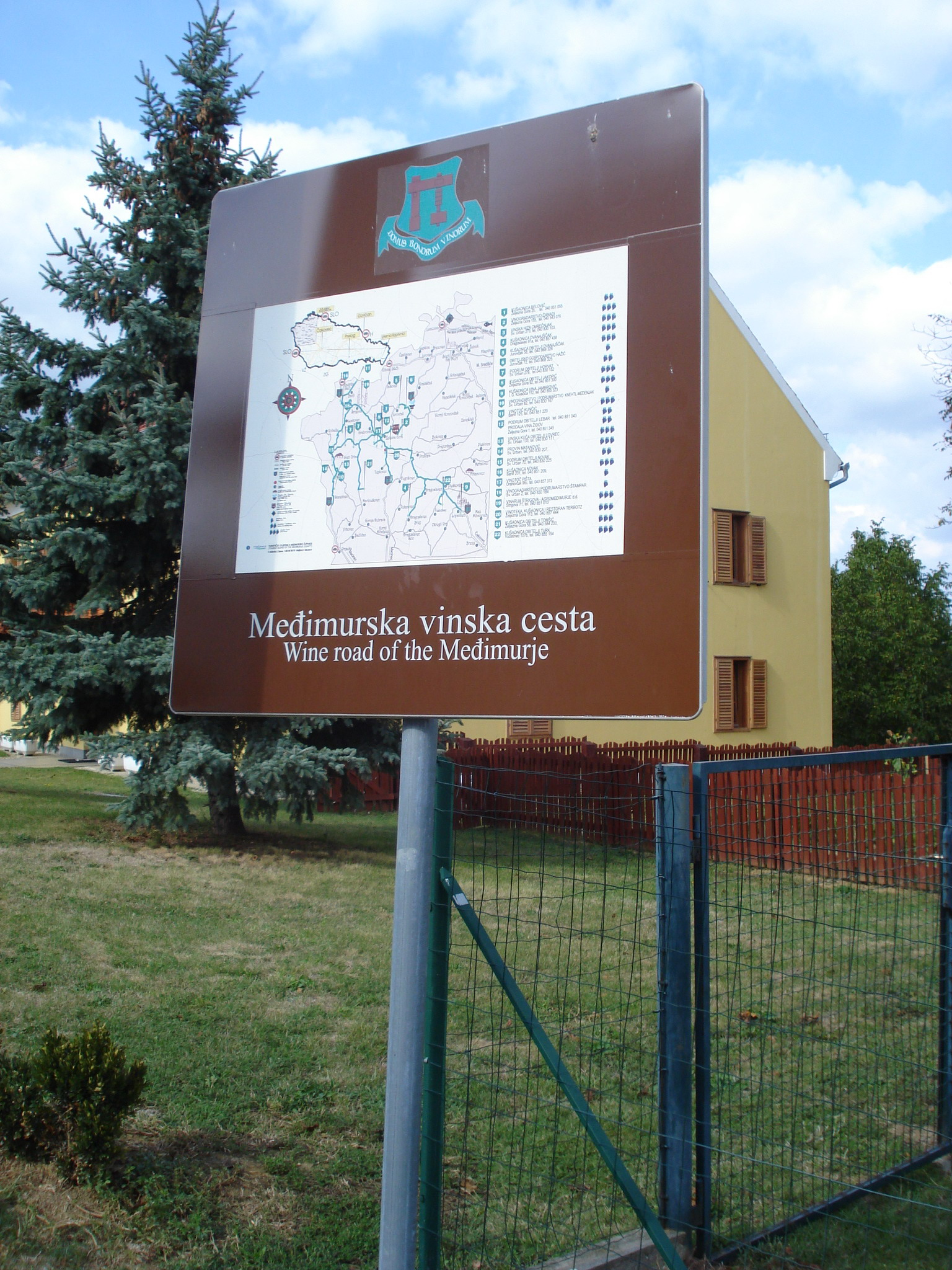 Međimurje Wine Road information board in Lopatinec (Croatia)